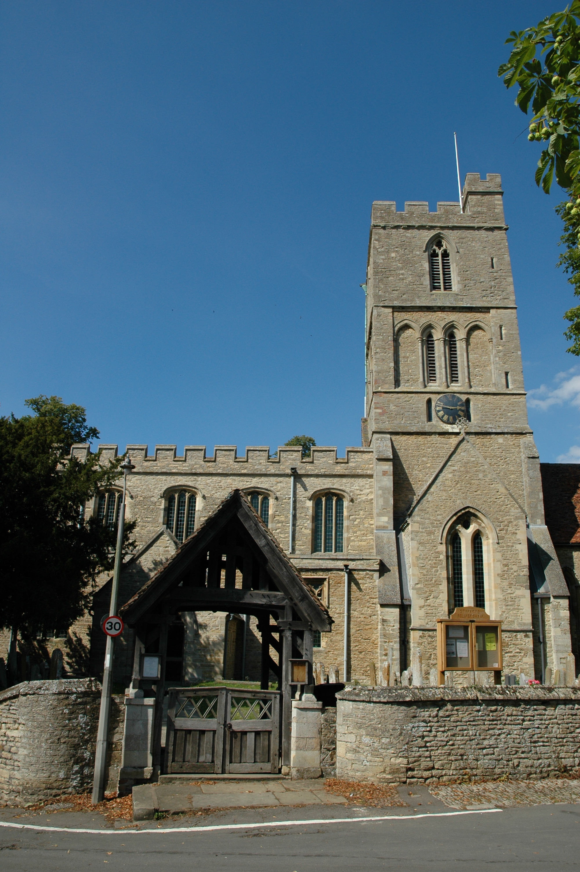 StMary'sChurch-Felmersham